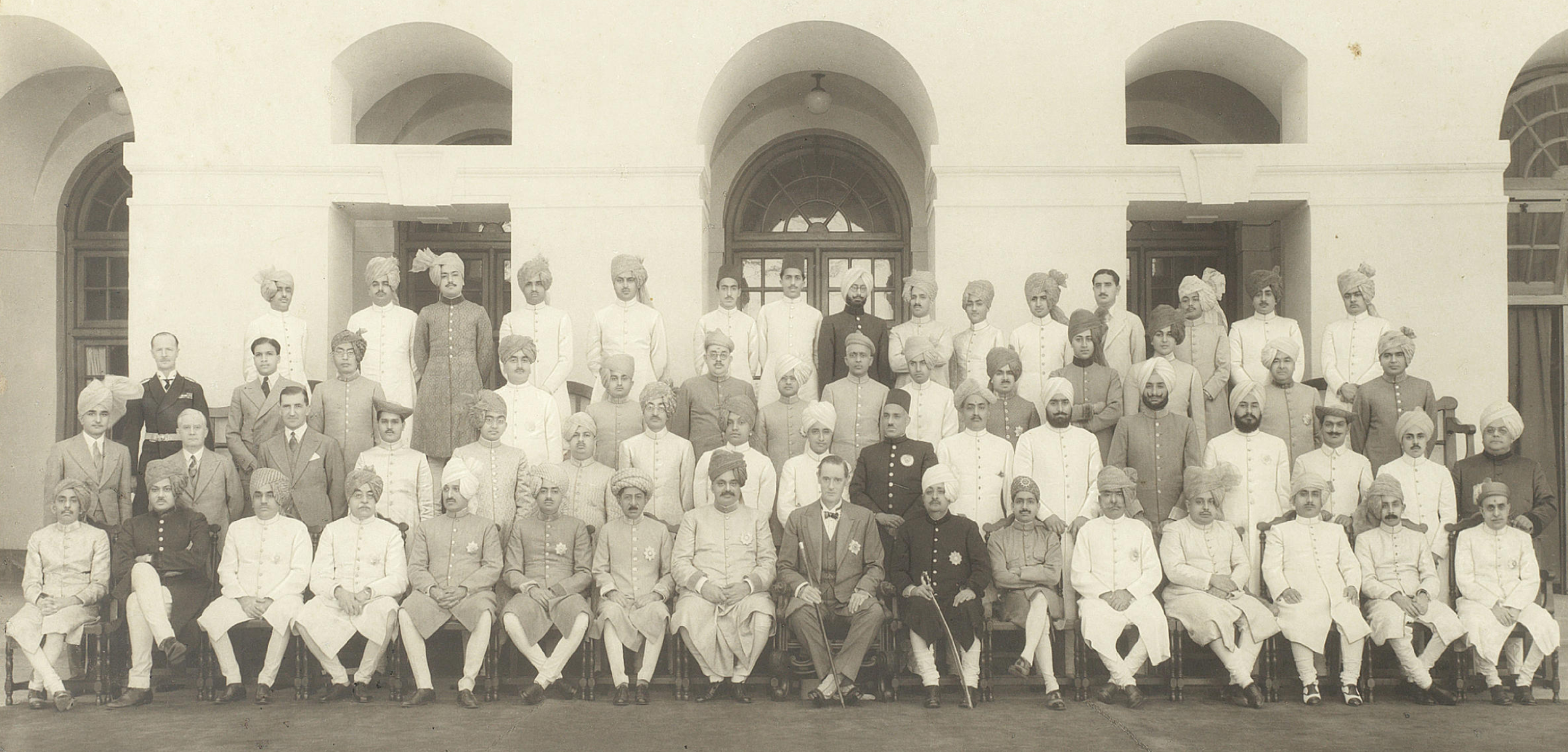 A group portrait of the Chamber of Princes (Narender Mandal) meeting of 1941. Left to Right 1st Row Standing:—The Raja of Seraikela, The Raja of Sarila, The Thakor Saheb of Palitana, H. H. The Maharana Raj Saheb of Wankaner, H. H. The Maharaja Rana Saheb of Porbandar, H. H. The Maharawal of Dungarpur, H. H. The Maharaja of Morvi, H. H. The Maharaja Jam Saheb of Nawanagar, H. E. The Crown Representative, H.H The Maharao Raja of Bundi, H. H. The Maharaja of Alwar, H. H. The Maharaja of Datia, The Raja of Dhenkanel, The Maharaja of Sonepur, The Raja of Keonjhar, The Raja of Bhor. 2nd Row Standing :—Mir Maqbool Mahmood, Sir Kenneth Fitze, The Hon'ble Sir Francis Wylie, The Raja of Jawhar, The Maharaja of Kalahandi, The Raja of Raigarh, The Maharaja of Patna, The Raja of Khairagarh, H. H. The Nawab of Rampur, H. H. The Nawab of Bahawalpur, H. H. The Maharaja of Dewas (Junior Br.), H. H. The Maharaja of Nabha, H. H. The Maharaja of Patiala, H. H. The Raja of Faridkot, H. H. The Maharaja of Dewas (Senior Br.), H. H. The Maharaja of Bharatpur, H. H. The·Raja of Suket. 3rd Row Standing :—Lt. Col. C. P. Hancock, Rajkumar of Sangli, Rajkumar of Seraikela, The Raja of Jubbal, The Raja of Nagod, The Raja of Jamkhandi, H. H. The Raja of Sangli, The Raja of Miraj (Senior Br.), The Raja of Jath, H. H. The Raja of Mandi, H. H. The Mahraraja of Sirmur, H. H. The Maharaja of Cooch-Behar, H. H. The Maharaja of Tehri-Garhwal, The Raja of Korea. 4th Row Standing :—Raj Kumar Govind Singhji of Sitamau, Maharaj Shri Virbhadra Singhji of Dungarpur, Rajkumar of Khairagarh, Heir Apparent of Wankaner, Maharaj Kumar of Dewas (J. Br.) Sahebzada of Bahawalpur, Sahebzada of Bahawalpur, Shri Kanwar Manjit Indar Sahibji of Faridkot, Heir Apparent of Sitamau, Heir Apparent of Sonepur, The Thakor Saheb of Wadhwan, Kanwar Lokendra Singh of Jubbal, Rajkumar of Dhenkanal, Heir Apparent of Morvi, Darbar Shree of Jetpur. Albumen print, stamped A.R. Datt, Delhi. Image approximately 575 x 320mm.